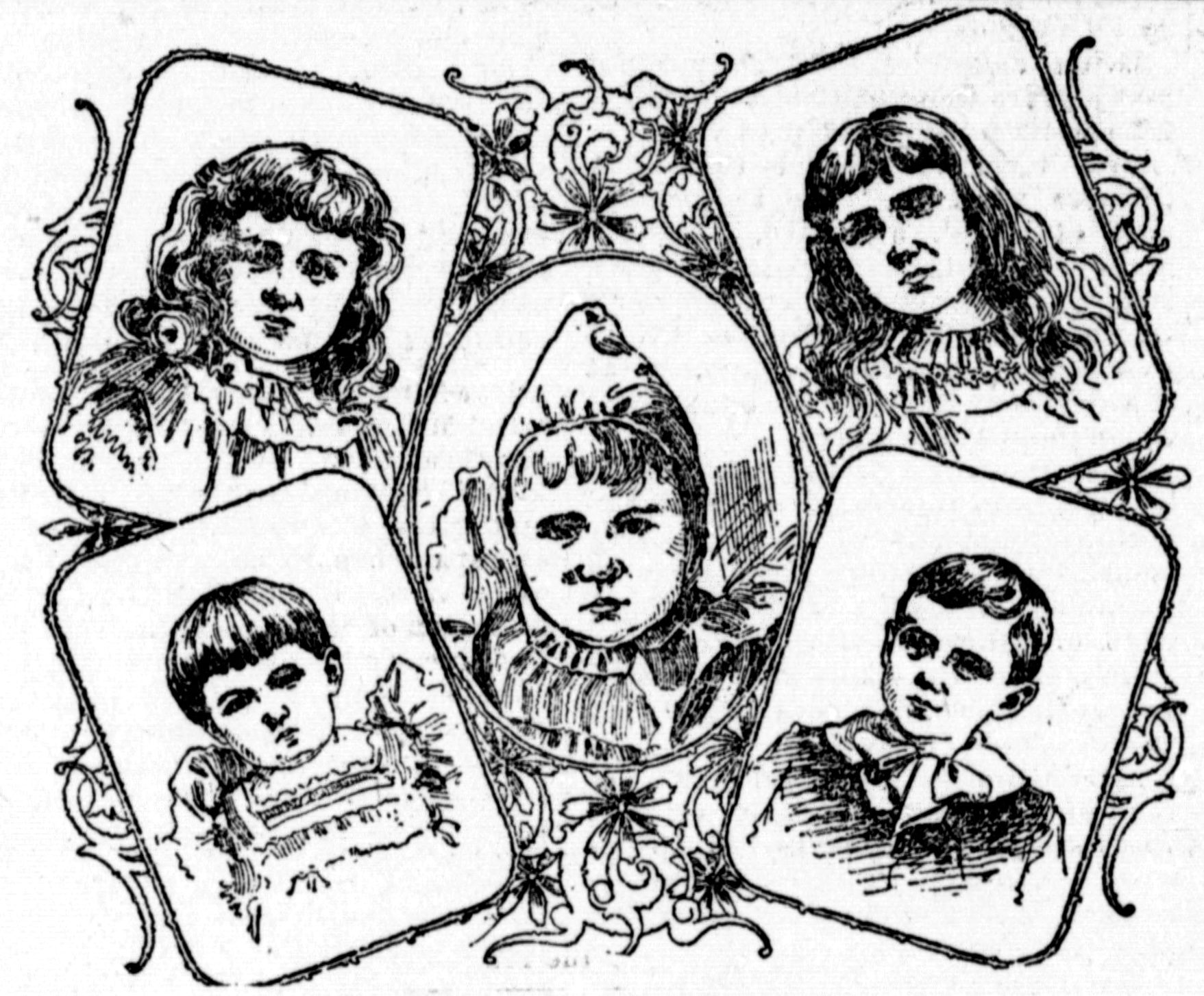 Ulysses S. Grant Junior's kids: Miriam (born 1881), Chaffee (born 1883), Julia (born 1885), Fannie (born 1889), and Ulysses IV (born 1893)